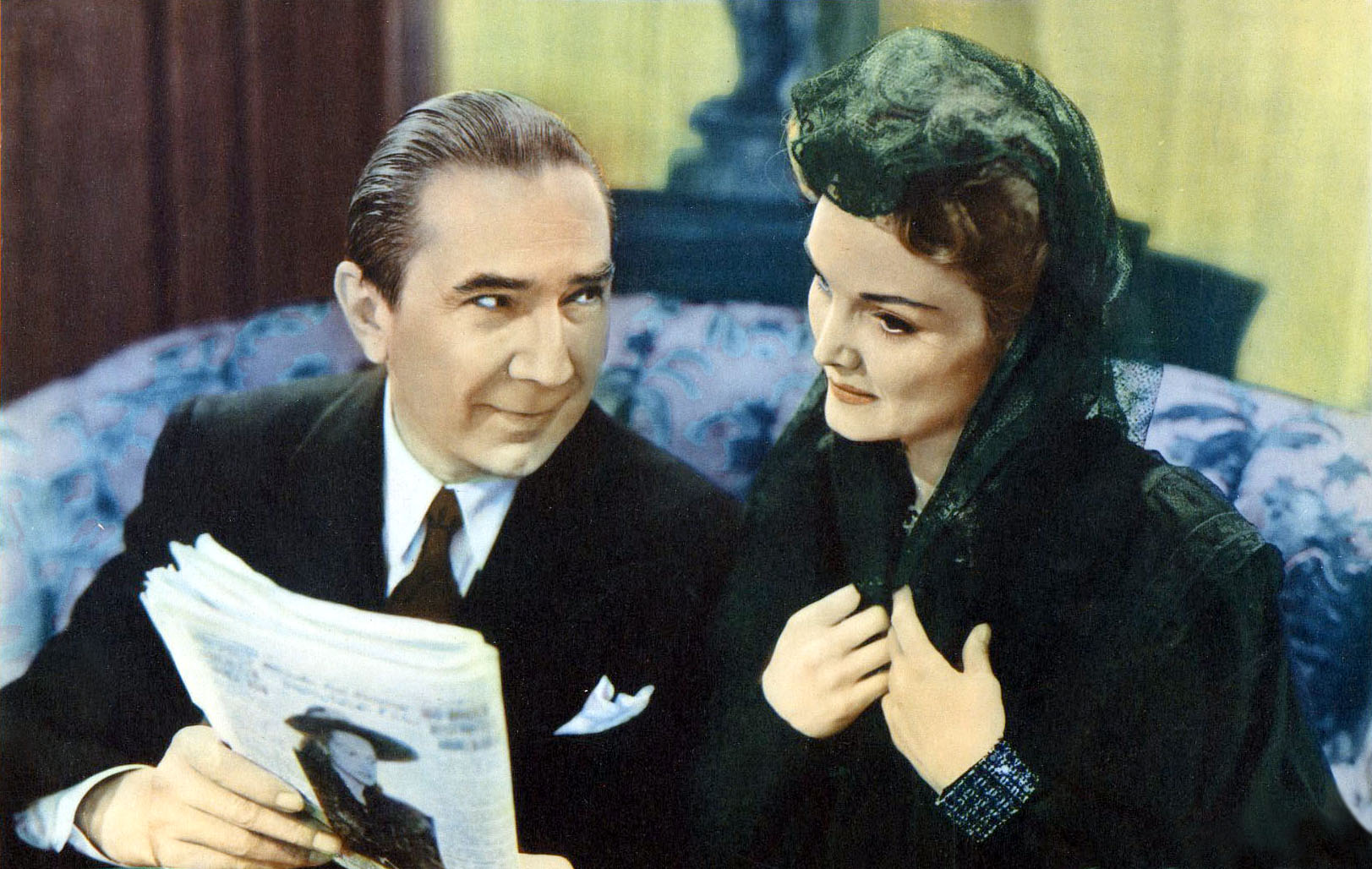 Cropped and edited lobby card for The Corpse Vanishes featuring Bela Lugosi. This image is assumed to be in the public domain, as no copyright notice is in evidence. The item has no copyright markings on it as can be seen in the links above and in the original uploaded copy. At bottom right is Litho in USA.